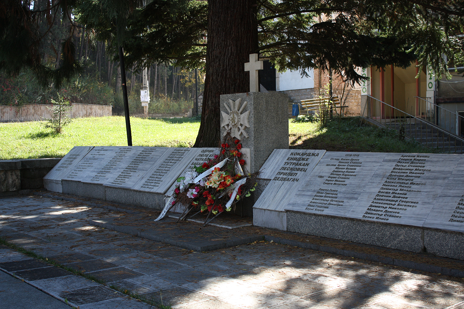 Participants in wars memorial in Godech